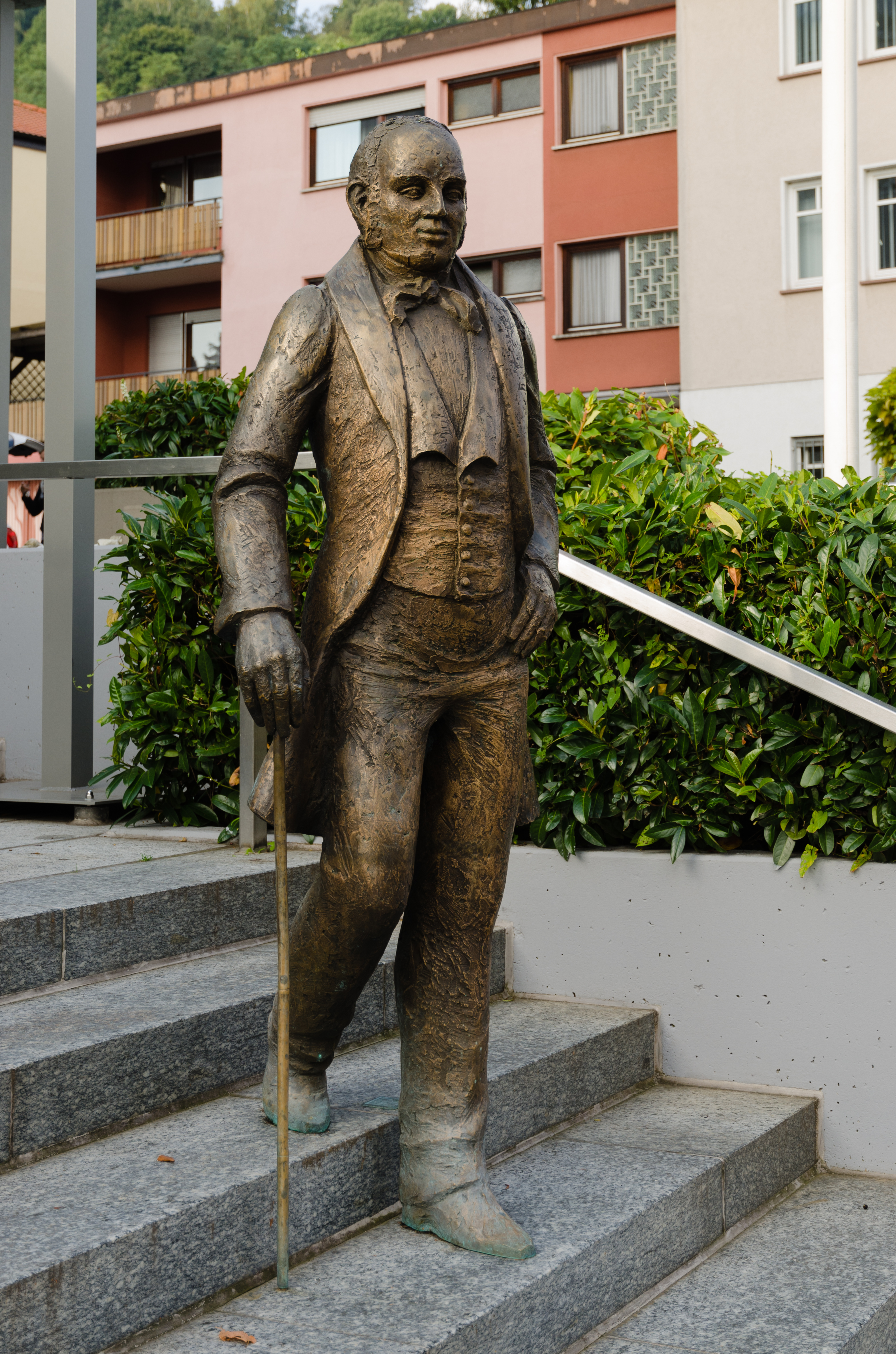 Franz Leopold Koch statue, Bad Orb, Hesse, Germany; by Christian Paschold, 2002